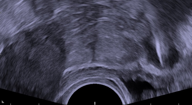 Transvaginal ultrasonography showing an IUD with copper as a hyperechoic (rendered as bright) line at right, 3 centimeters away from the uterus at left. The IUD is surrounded by a hypoechoic (dark) foreign-body granuloma. The urinary bladder is seen beneath it, close the the circular tip of the ultrasound probe at the bottom. The patient was a 29 year old woman who had a painful IUD insertion 2 months earlier. Follow-up plain film radiography of the same case.